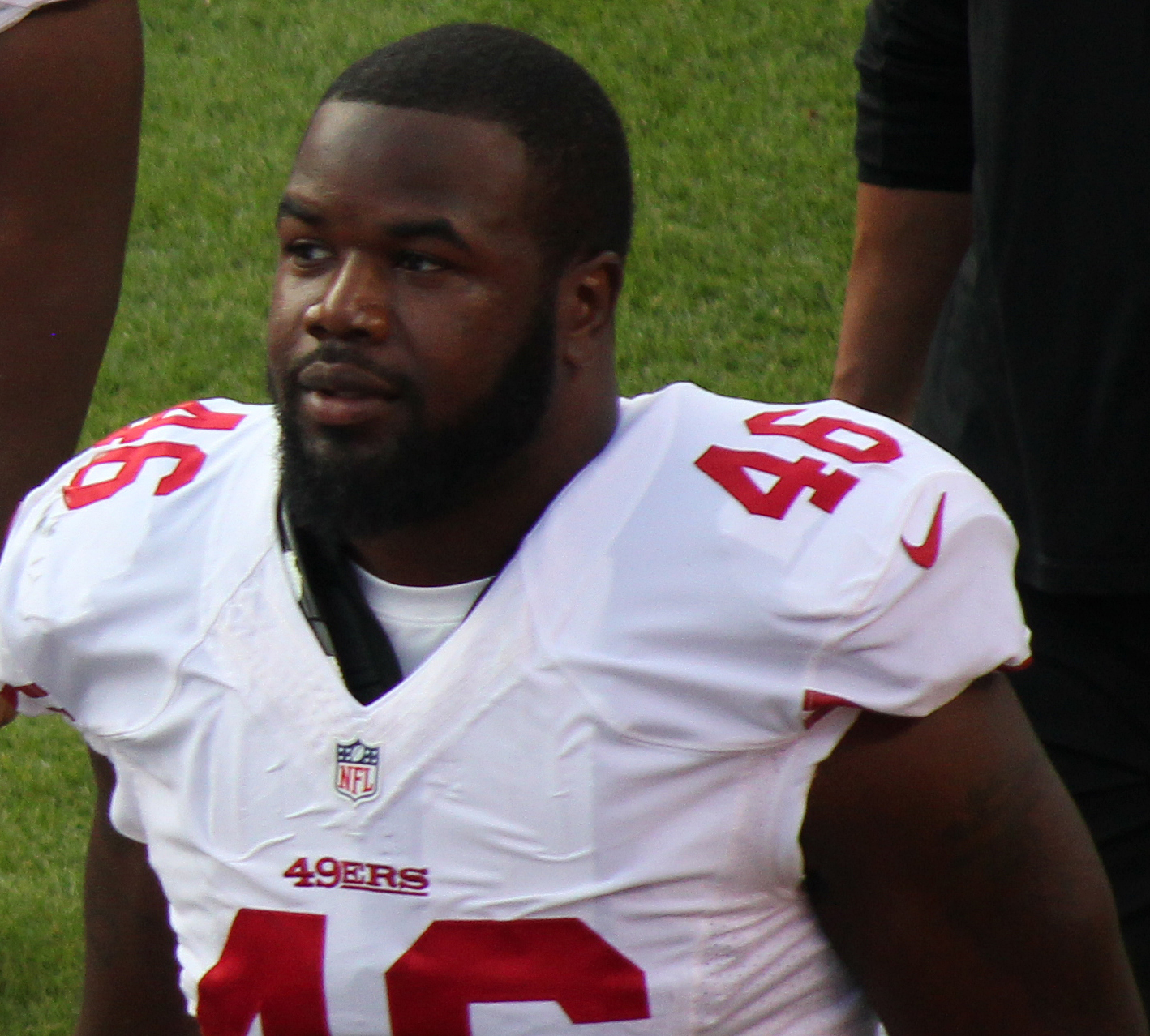 Shawn Lemon, a player on the National Football League.